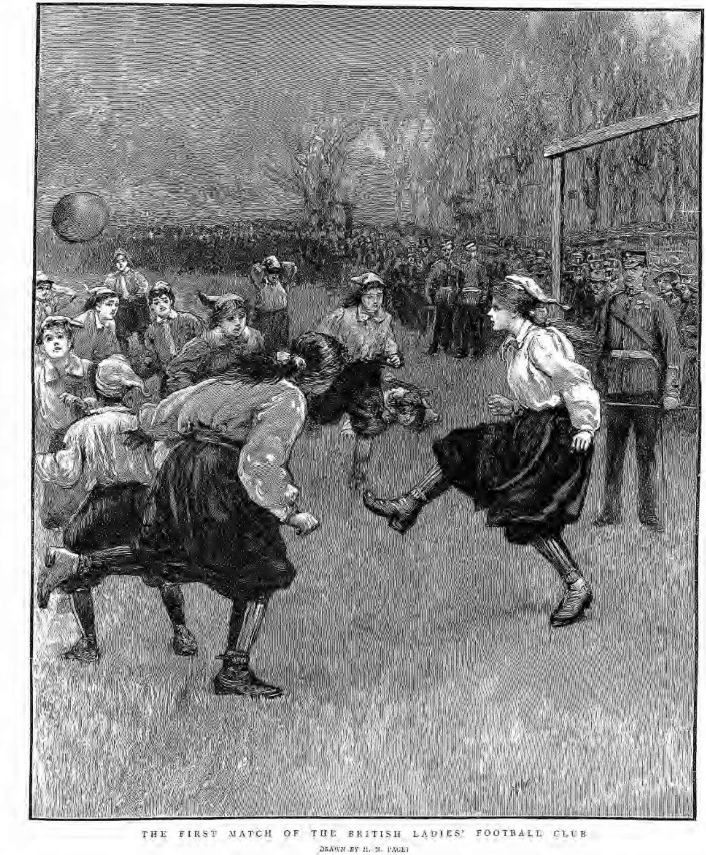 Illustration of the "First Match of the British Ladies' Football Club" (H. M. Paget), March 1895